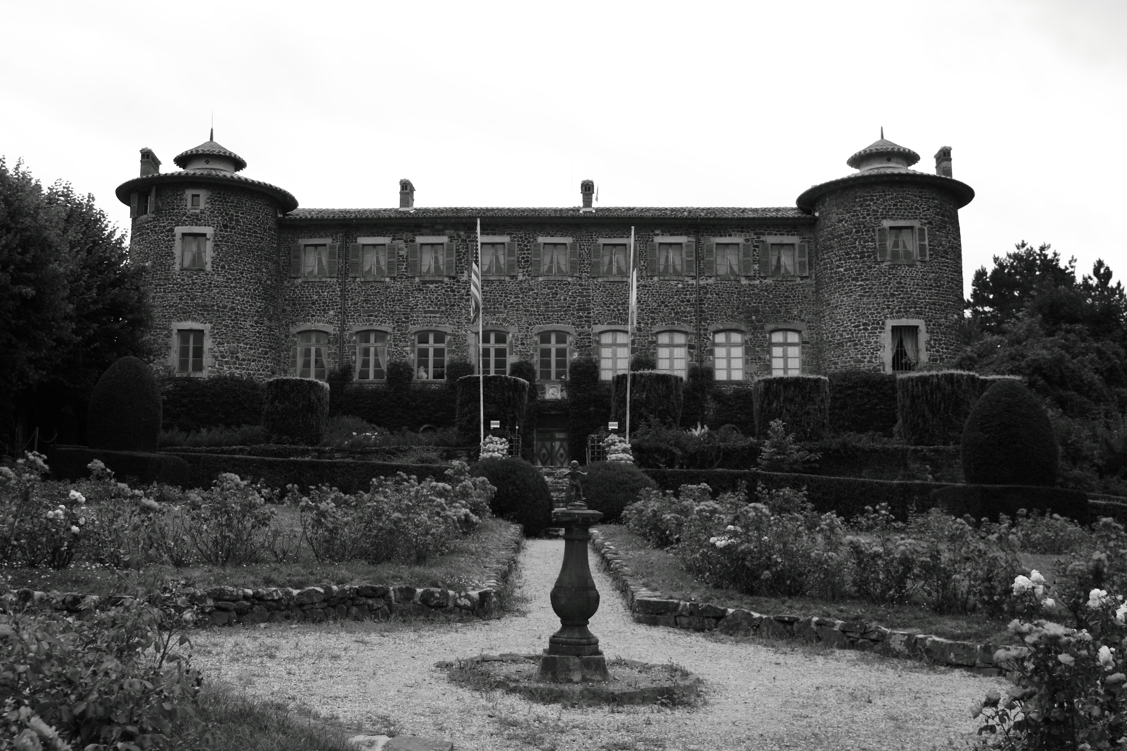 The Château de Chavaniac is a fortified manor house of eighteen rooms furnished in the Louis XIII style located in Chavaniac-Lafayette, Haute-Loire, in Auvergne, France. Flanked by two towers of black stone, it was built in the 14th century and was the birth place of General Lafayette in 1757. In 1917, American industrialist John Moffat purchased the castle and renovated it completely to preserve documents and objects relating to General Lafayette. The Château de Chavaniac is now a museum open to the public. The Château de Chavaniac was constructed in the 14th century. It was partially destroyed by a fire in 1701. The General Lafayette was born here in 1757. He was married in 1774 to Adrienne de Noailles. They had four children together. Henriette, who died at a young age, Anastasie, Georges and Virginie who lived in the castle. A hero of the American and French revolutions, he was rejected by the French revolutionnaries when he voted against the death of the king. With the fall of the monarchy, he tried to flee to the United States through the Dutch Republic. He was captured by Austrians and was made prisoner by Austria at the fortress of Olmutz. He was considered a traitor for not saving the life of Marie-Antoinette, an Austrian by birth, and the king. Lafayette returned to France in 1797. The château was restored to Lafayette in 1791 but sold by the Republic when Lafayette fled the country. His aunt bought the château. In 1917, John Moffat, a industrialist purchased the château for the association of Friends of Lafayette and furnished the château with memorabilia from Lafayette and other period pieces. After the death of John Moffat in 1966, the Friends of Lafayette took over management of the château. In 2009, the Conseil Général de la Haute-Loire took over management of the château and repaired the roof. The French and American flags fly permanently over the château in honor of the key role Lafayette played in the French and American revolutions.